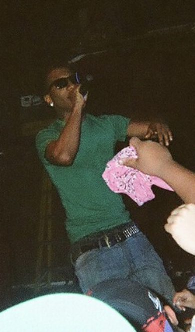 Lil B